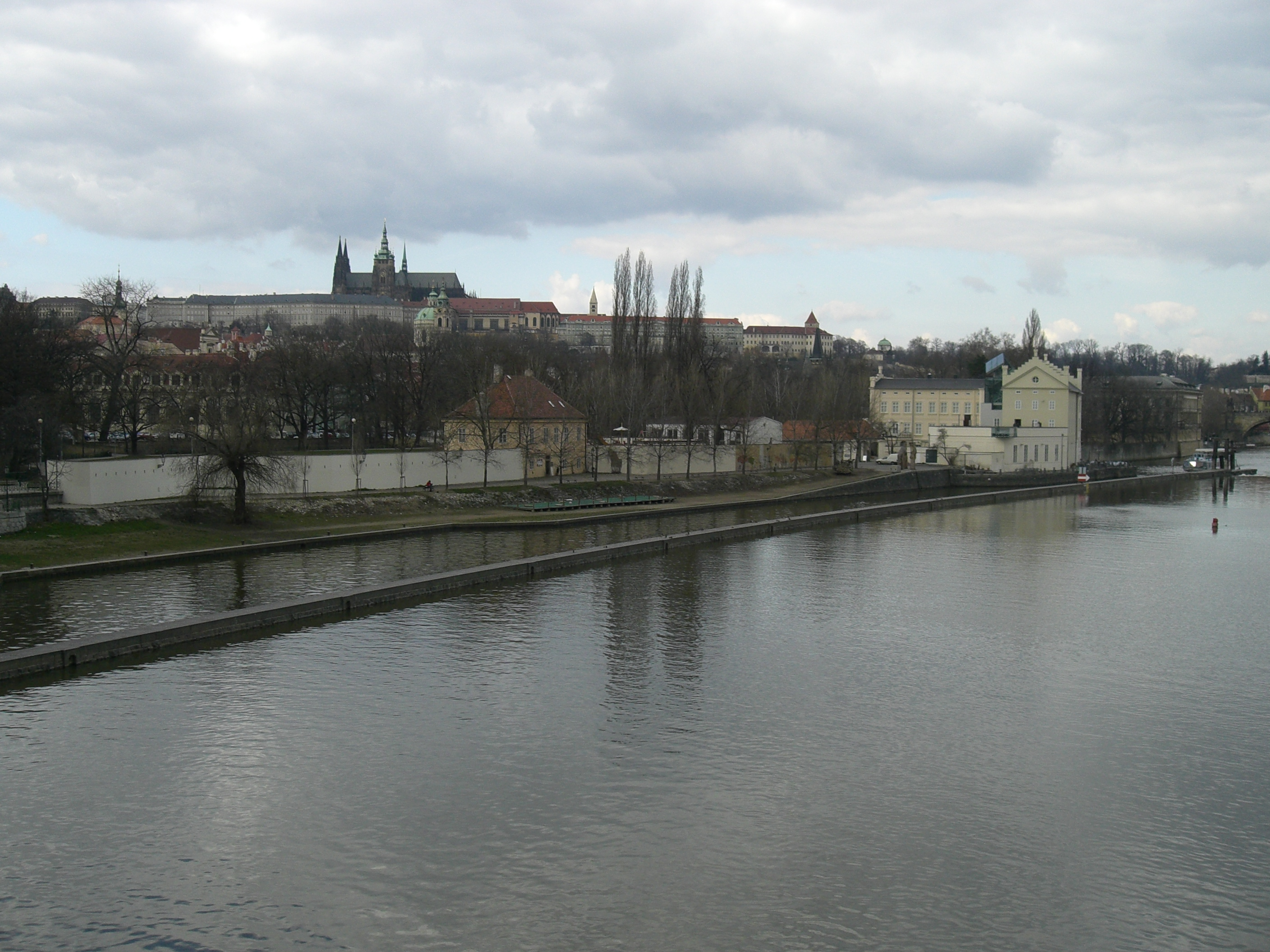 Kapma island in Prague, 9. March 2007